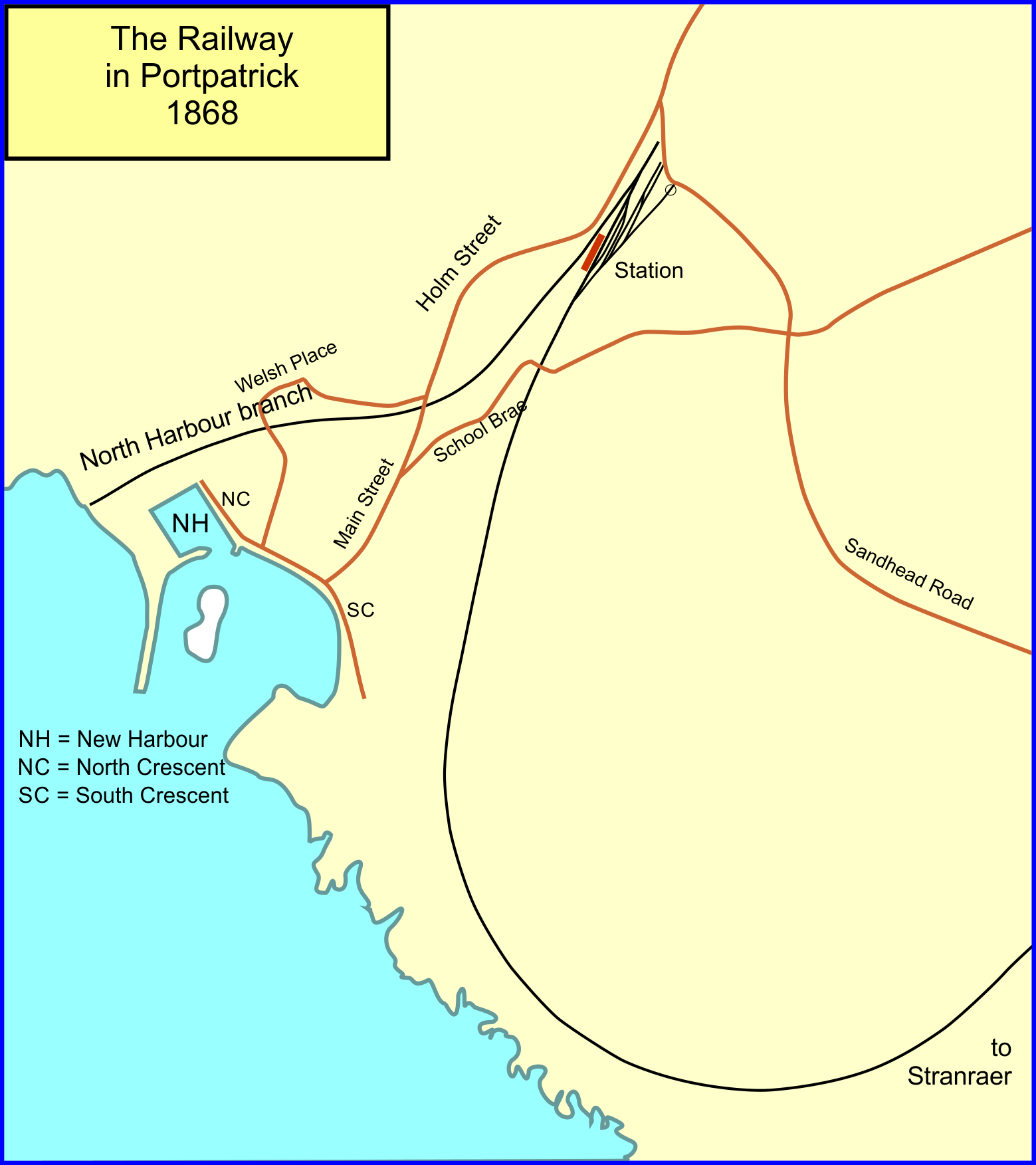 Diagram of railway connections in Portpatrick